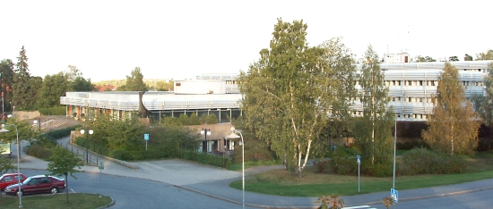 City Hall, Lidingö, Sweden